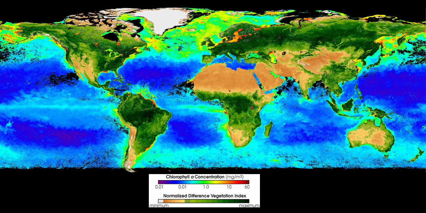 SeaWiFS Global Biosphere, Visualization Date 2002-08-03 This composite image gives an indication of the magnitude and distribution of global primary production, both oceanic (mg/m3 chlorophyll a) and terrestrial (normalized difference land vegetation index). Provided by the SeaWiFS Project, NASA/Goddard Space Flight Center and ORBIMAGE. Primary